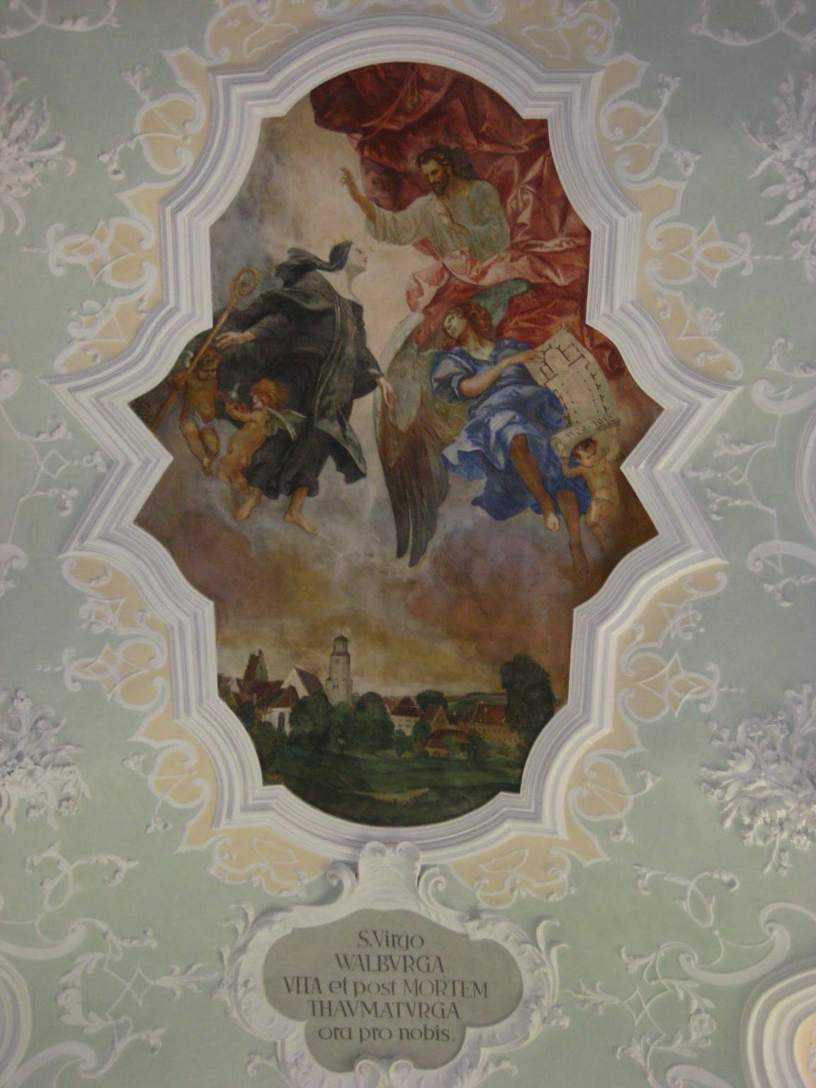 Picture on the ceiling of the Pfarrkirche St. Walburga, Monheim, Bavaria